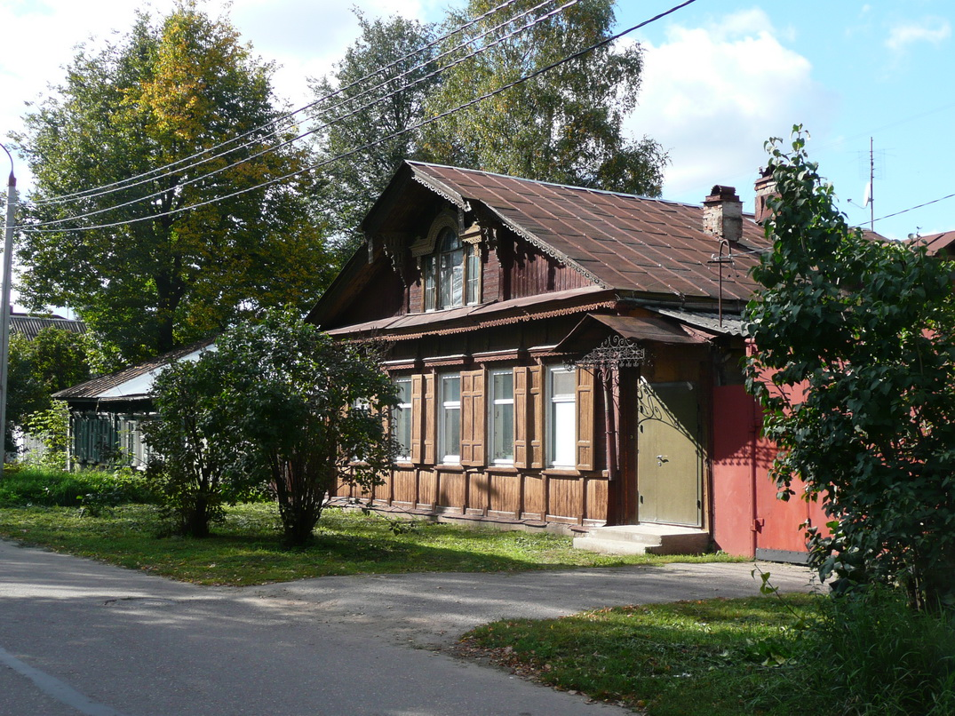 A street in Zatmachye